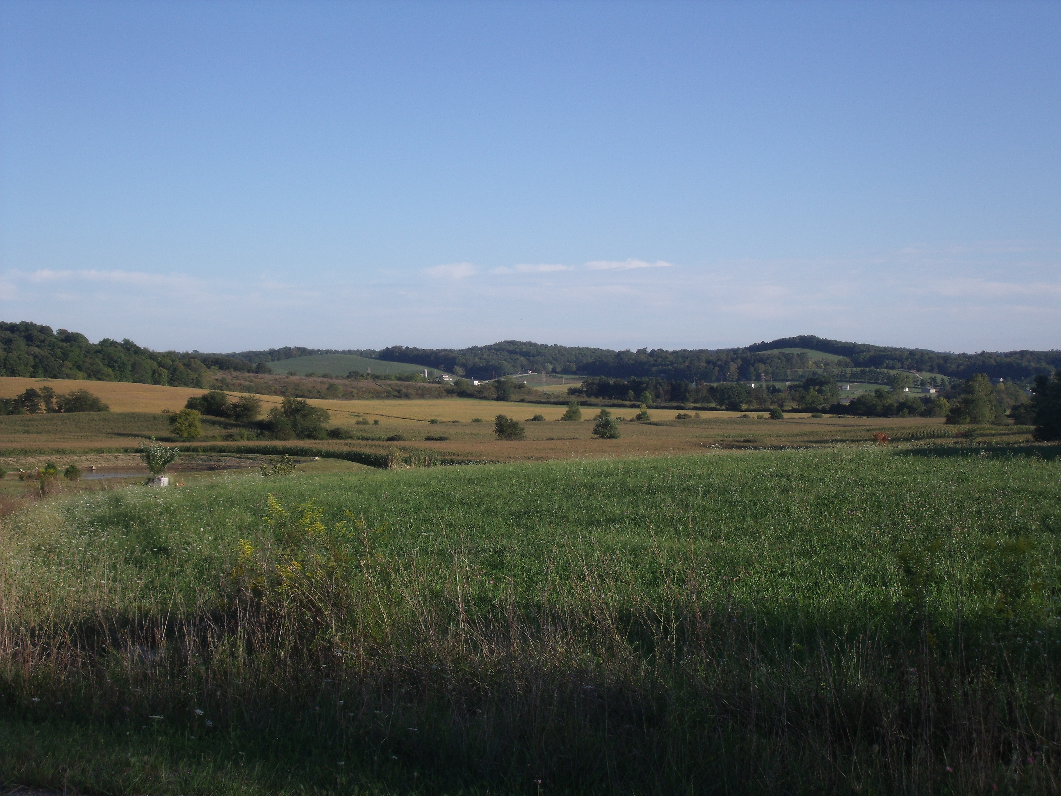 Farmland in Licking Township, Licking County, Ohio